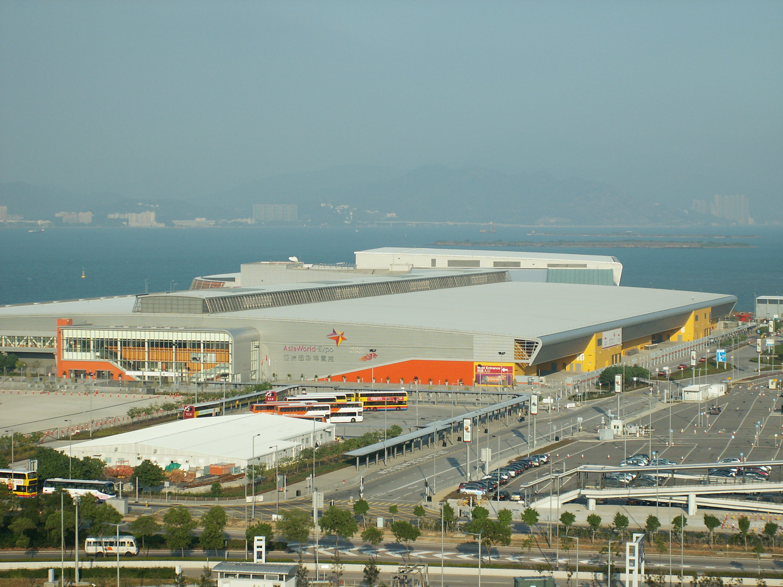 AsiaWorld-Expo view from SkyDeck, Terminal 2, Hong Kong International Airport.